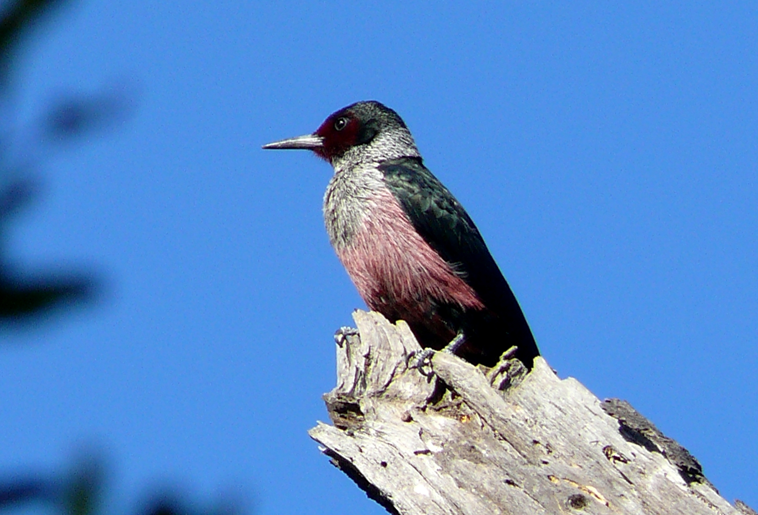 Lewis's Woodpecker in San Luis Obispo County, California, USA.